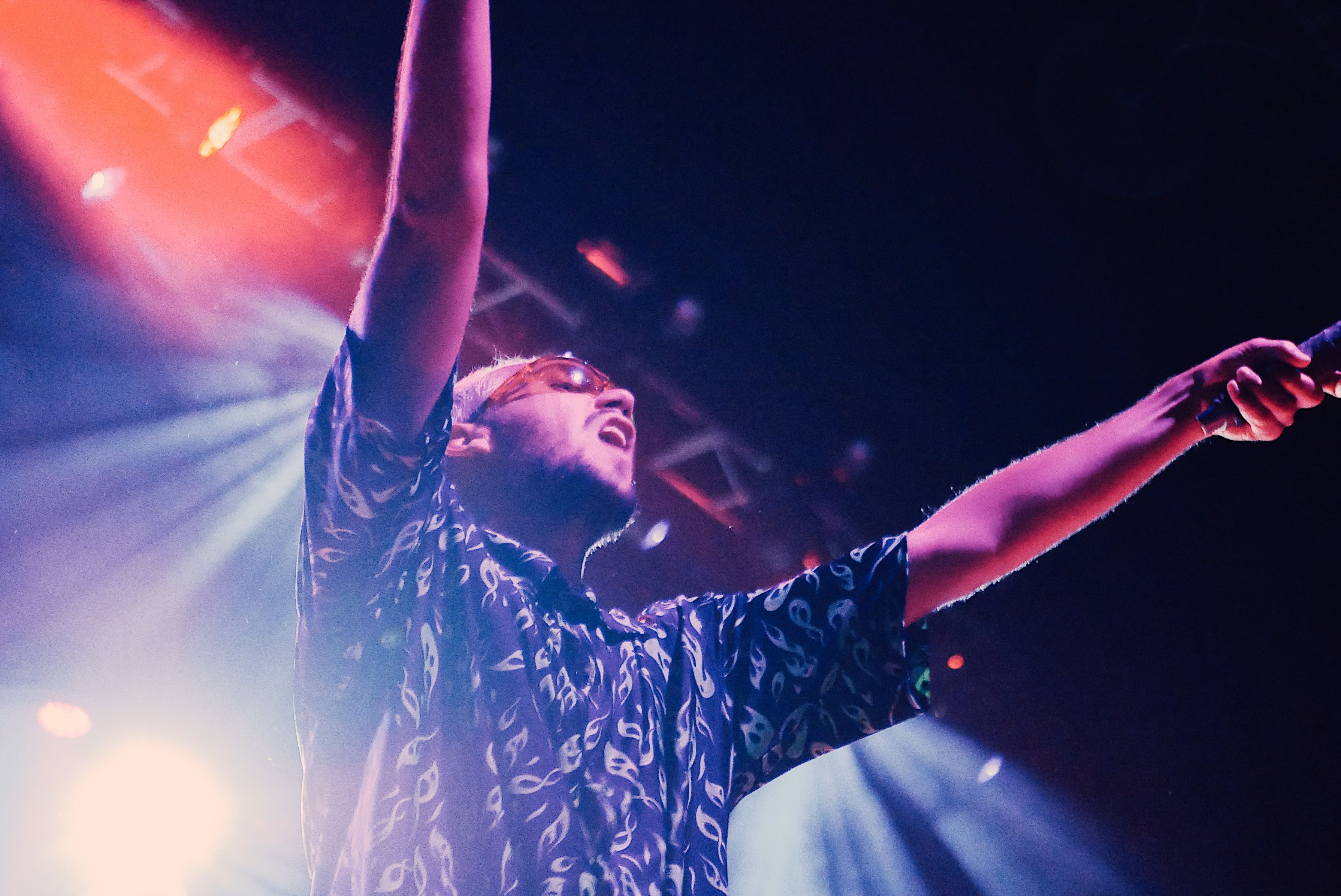 Photograph by Josh Jaffe (@josh_jaffe)